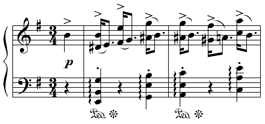 Opening measures of Chopin's "wrong note" etude Op. 25 No. 5, demonstrating a humourous use of the minor second. The original work is public domain, image created by the uploader.